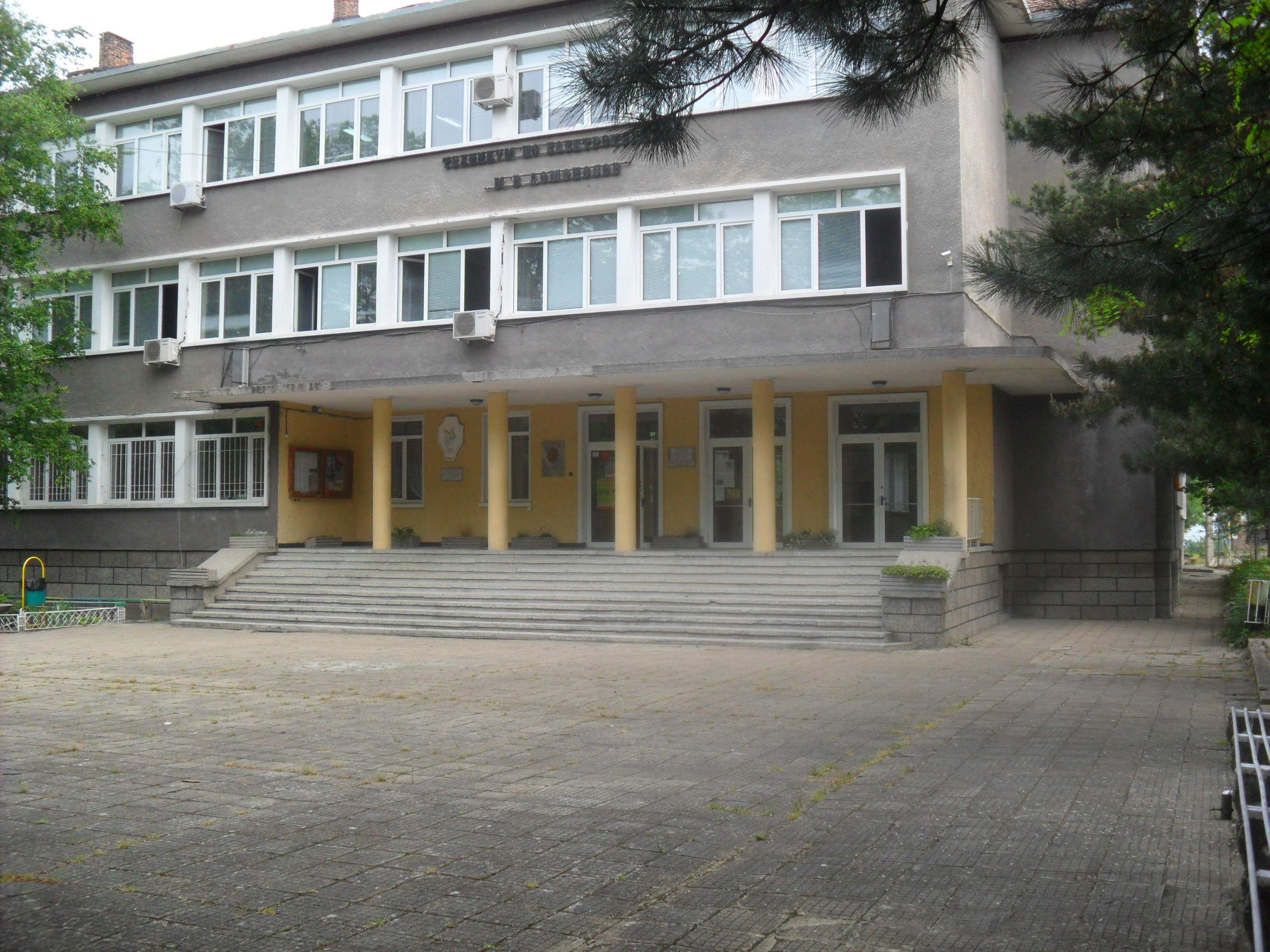 High School in Gorna Oryahovitsa,Bulgaria